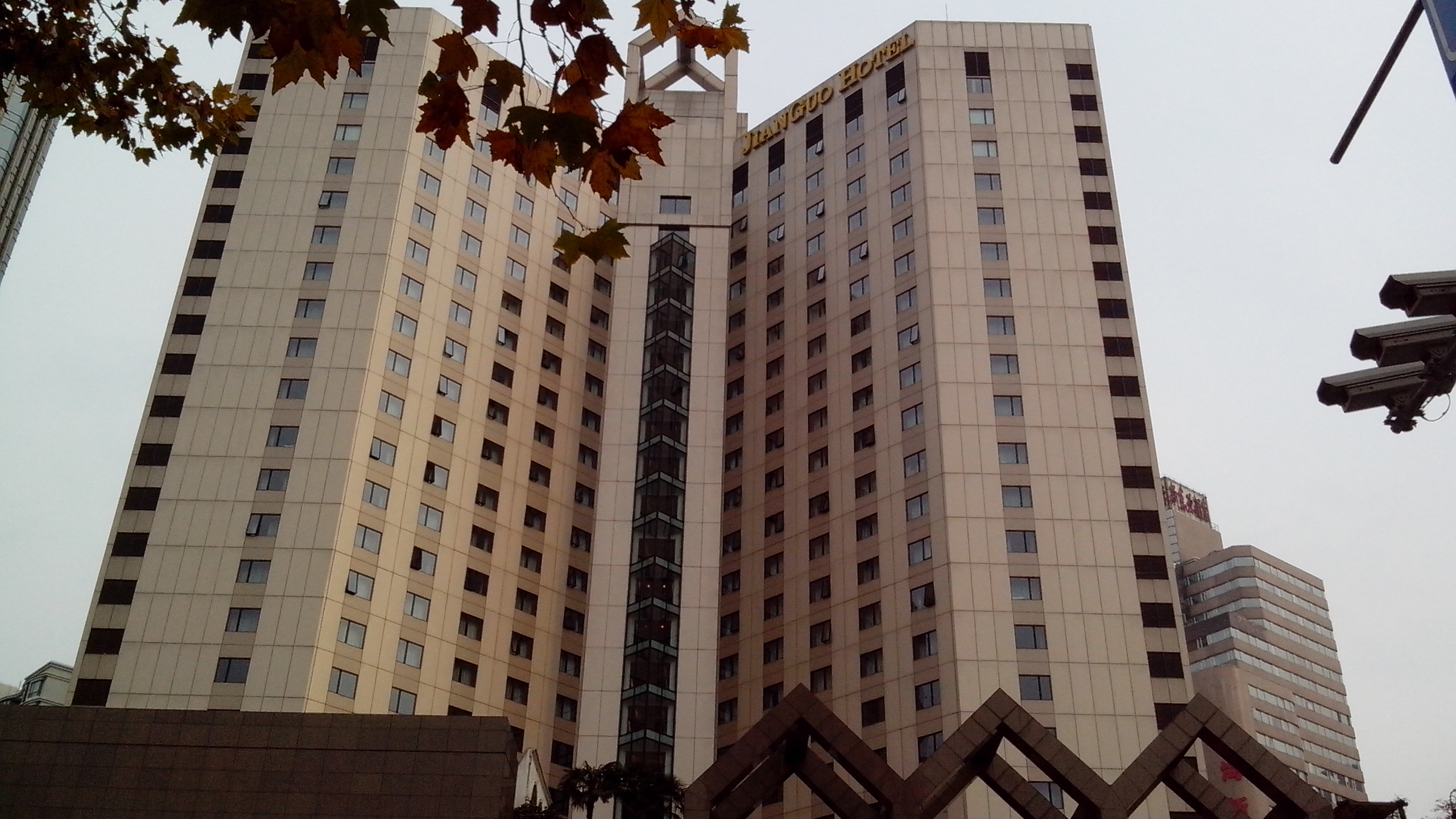 Jianguo Hotel shanghai